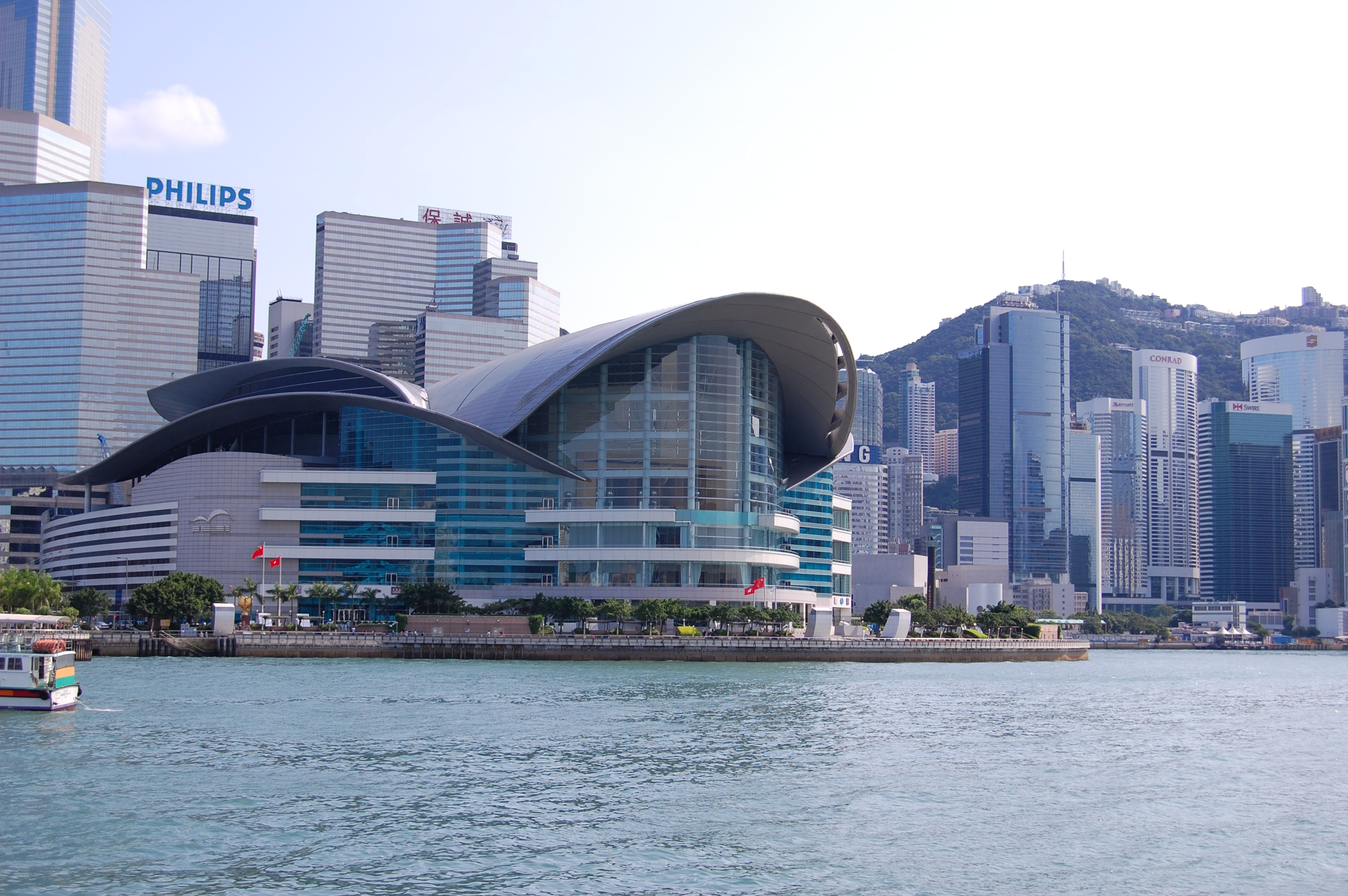 Hong Kong Convention and Exhibition Centre